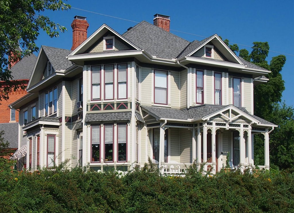 Roscoe Hersey House, 416 S 4th St, Stillwater, Minnesota, USA. Viewed from the east, lightly corrected for tilt distortion.